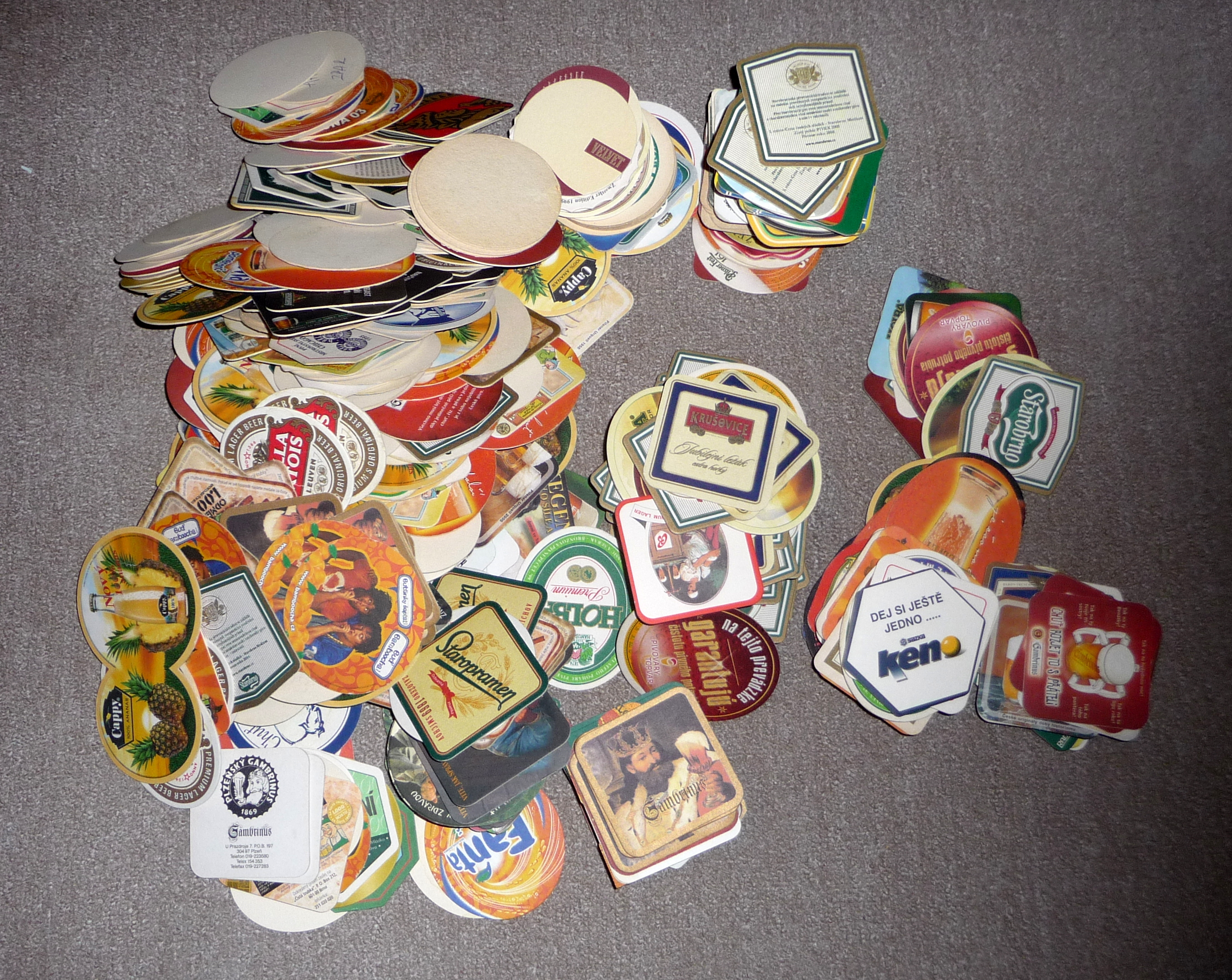 Bunch of beer coasters